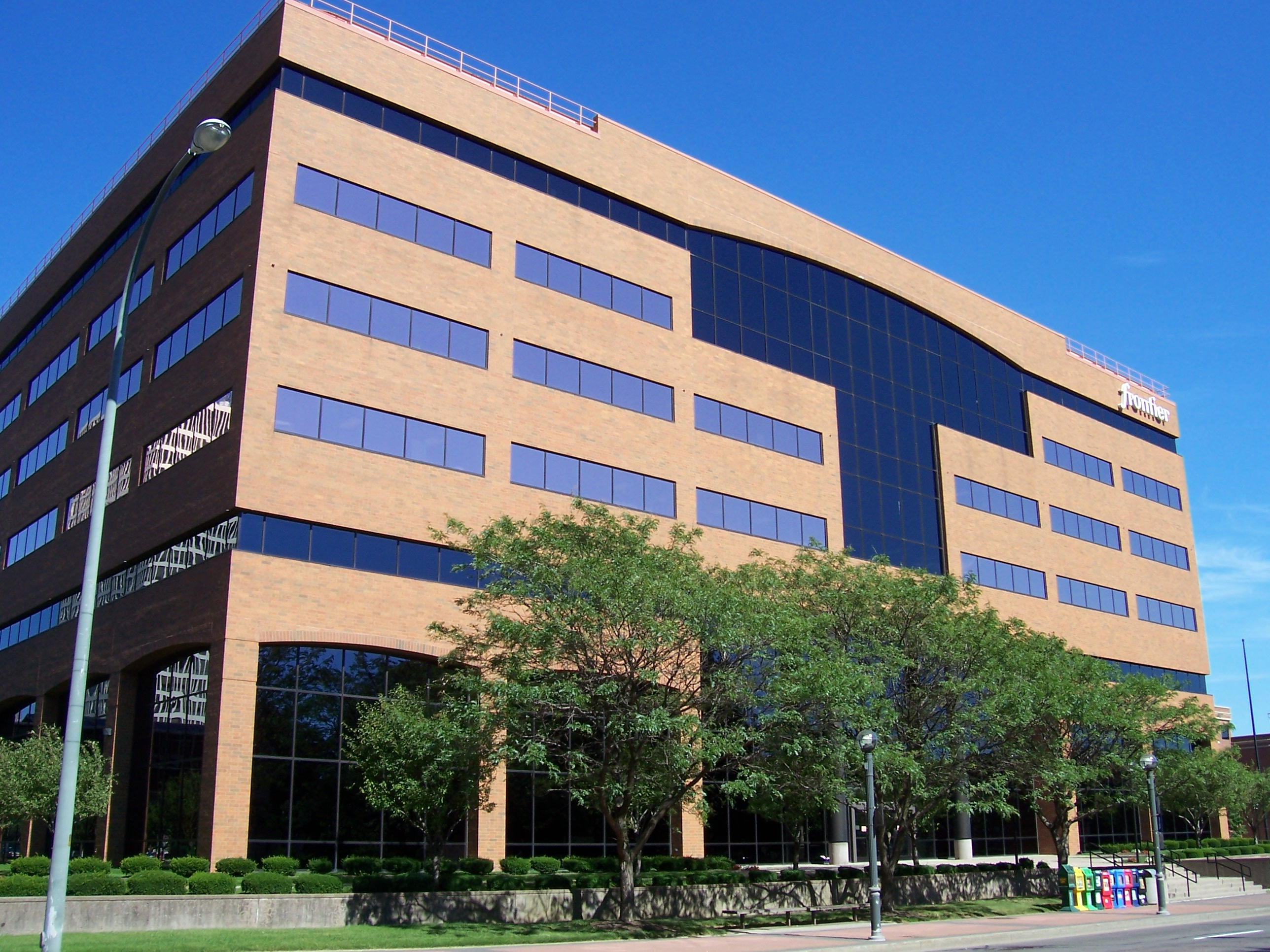 Street view of Frontier Telephone of Rochester headquarters in Rochester, New York